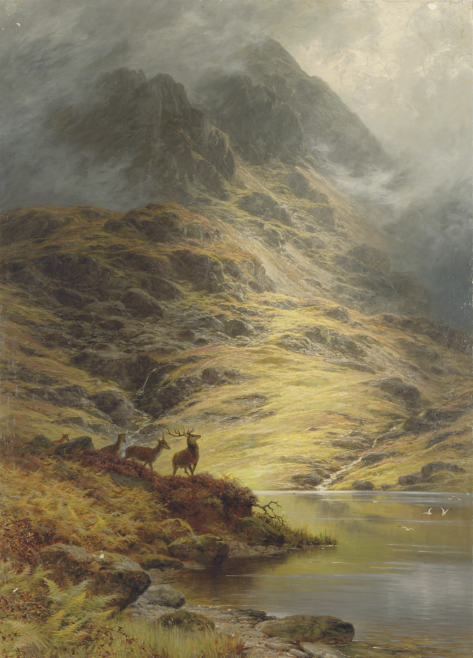 A photograph from an auction catalogue of an oil painting. It was signed and dated 'CHARLES STUART 1895-6' (on a section of canvas attached to the reverse).